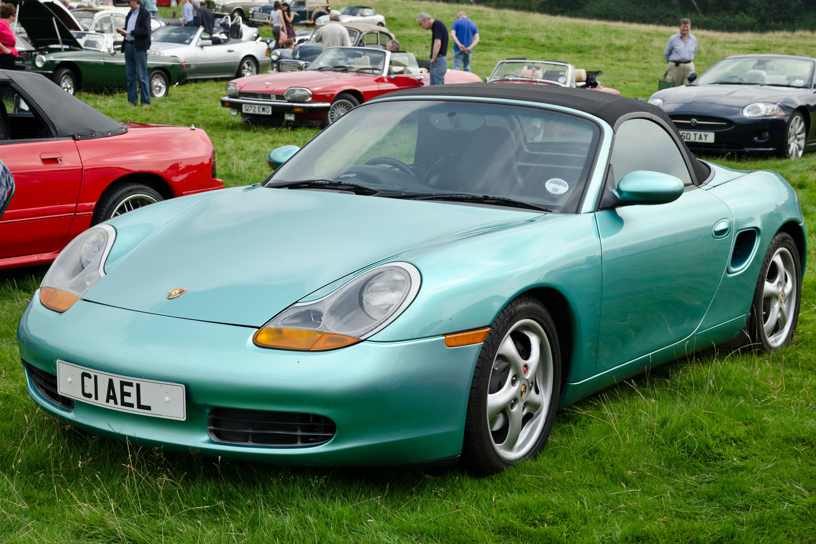 Capesthorne Hall Classic Car Show 25/08/2013